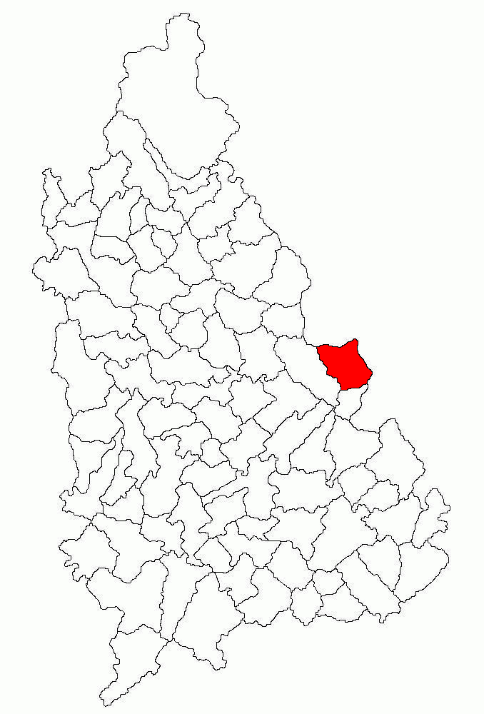 Location map of Darmanesti Commune in Dambovita County, Romania